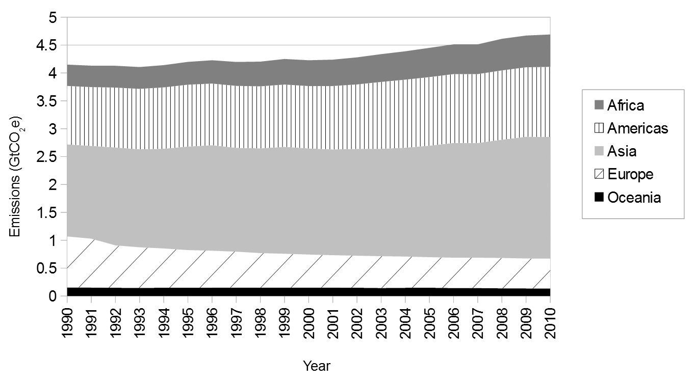 This graph shows greenhouse gas emissions from agriculture between 1990-2010, by region. The regions are Africa, the Americas, Asia, Europe, and Oceania. Emissions are measured in gigatonnes (billion tonnes) of carbon-dioxide-equivalent (GtCO2e). Summary Across all agricultural sectors, total emissions in 1990 were around 4.1 GtCO2e. In 2000, total emissions had increased to 4.2 GtCO2e, which is an increase of 1.9% compared to 1990 levels. In 2010, total emissions were around 4.3 GtCO2e (an increase of 13% compared to 1990 levels). Summarized below are the percentage contributions of each region to total emissions. Data are given for 1990, 1995, 2000, 2005, and 2010, respectively: Africa: 9.2, 9.7, 10.9, 11.8, 12.4 Americas: 25.3, 26.4, 26.5, 27.6, 26.8 Asia: 39.8, 44.2, 45.0, 44.9, 46.5 Europe: 22.0, 16.1, 14.0, 12.3, 11.4 Oceania: 3.7, 3.5, 3.6, 3.4, 2.9 Contributions of each region to total emissions in GtCO2e. Data are given in the same order as previously: Africa: 0.38, 0.41, 0.46, 0.52, 0.58 Americas: 1.05, 1.11, 1.12, 1.23, 1.26 Asia: 1.65, 1.86, 1.90, 2.00, 2.18 Europe: 0.91, 0.68, 0.59, 0.55, 0.53 Oceania: 0.15, 0.15, 0.15, 0.15, 0.14 Total: 4.15, 4.20, 4.23, 4.45, 4.69 References The full set of data used to produce this graph can be freely downloaded from the following source: Agriculture total, in: Emissions – Agriculture. Available from the Statistics division of the Food and Agriculture Organization (FAOSTAT)[1], Rome, Italy: Food and Agriculture Organization (FAO), (Please provide a date or year)